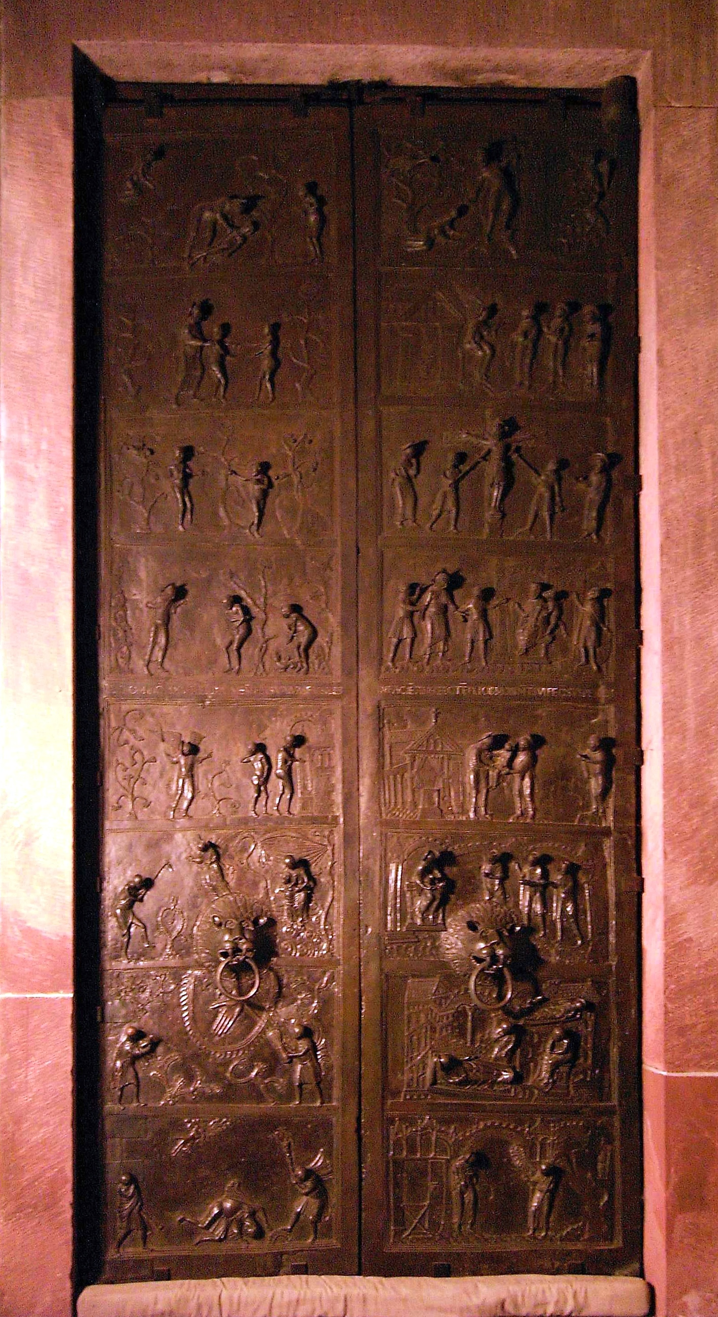 Description: Hildesheim, Cathedral St. Mary, Bronze doors of Saint Bernward, around 1000 AD. Bronze. Photographer: Thangmar, photo taken myself, 14.07.2005 Original file improved: colours corrected, focused, deskewed